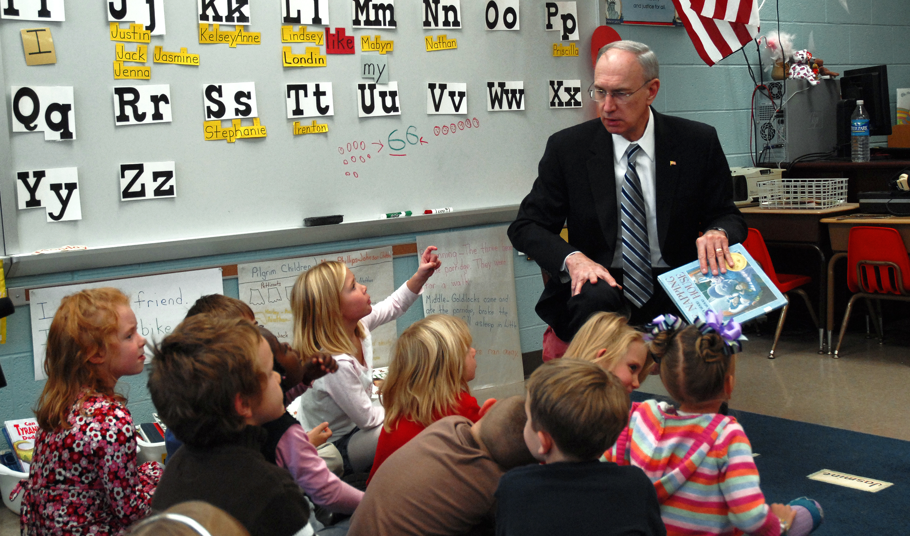 Deputy Secretary of Education Raymond Simon reads Audrey Wood’s “The Napping House” to young students at W.W. Ashurst Elementary School aboard MCB Quantico Dec. 3. He expressed his commitment to strengthening the partnership between the Department of Education and the Department of Defense Education Activity.